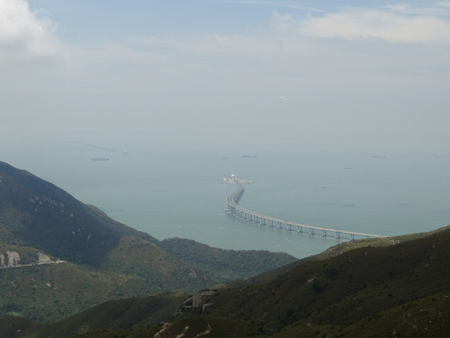 Bridge and tunnel Hongkong-Macau view drom Lantau